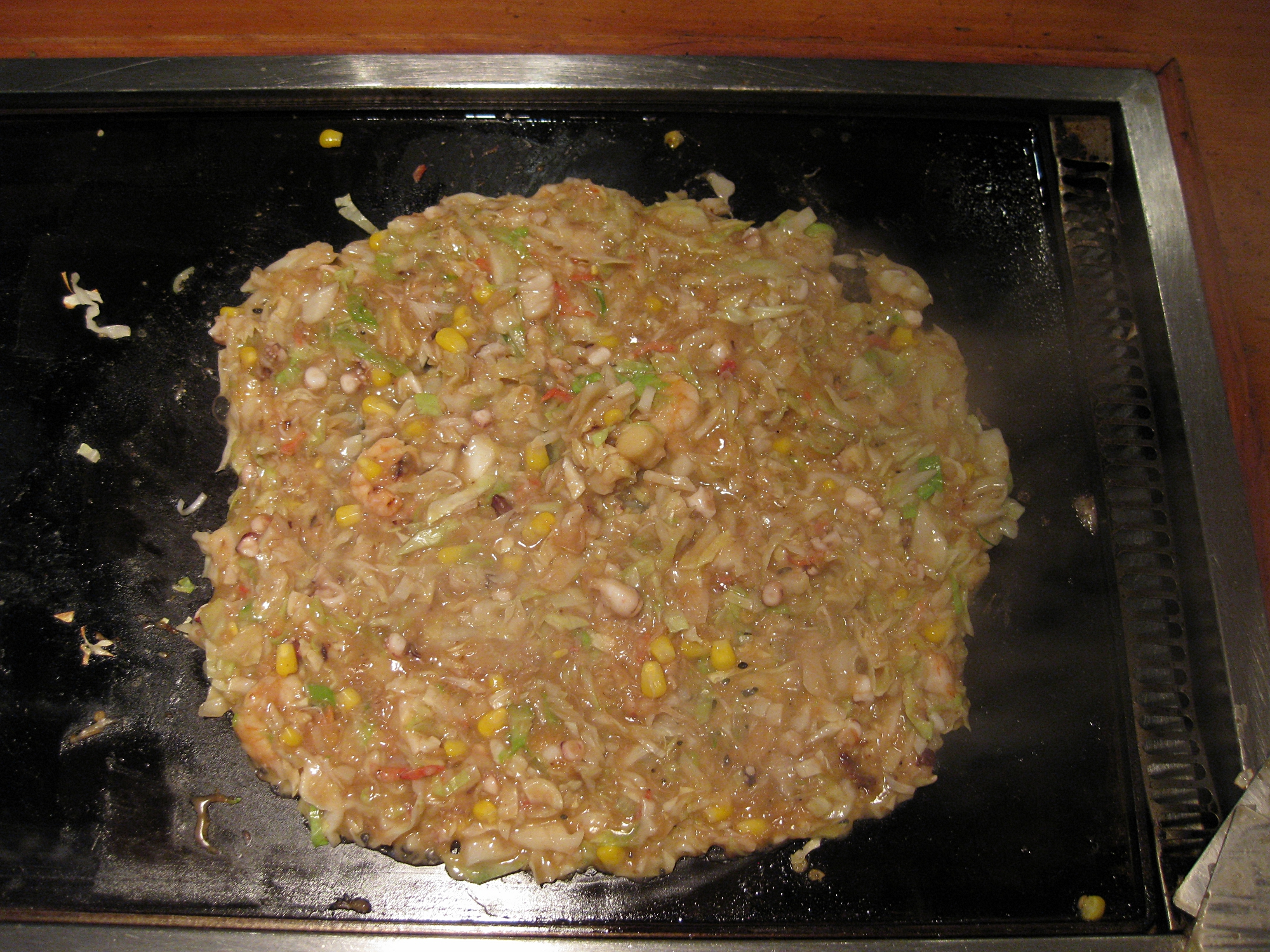 Monjayaki, a specialty food of Tokyo, being cooked on the teppan frying surface.